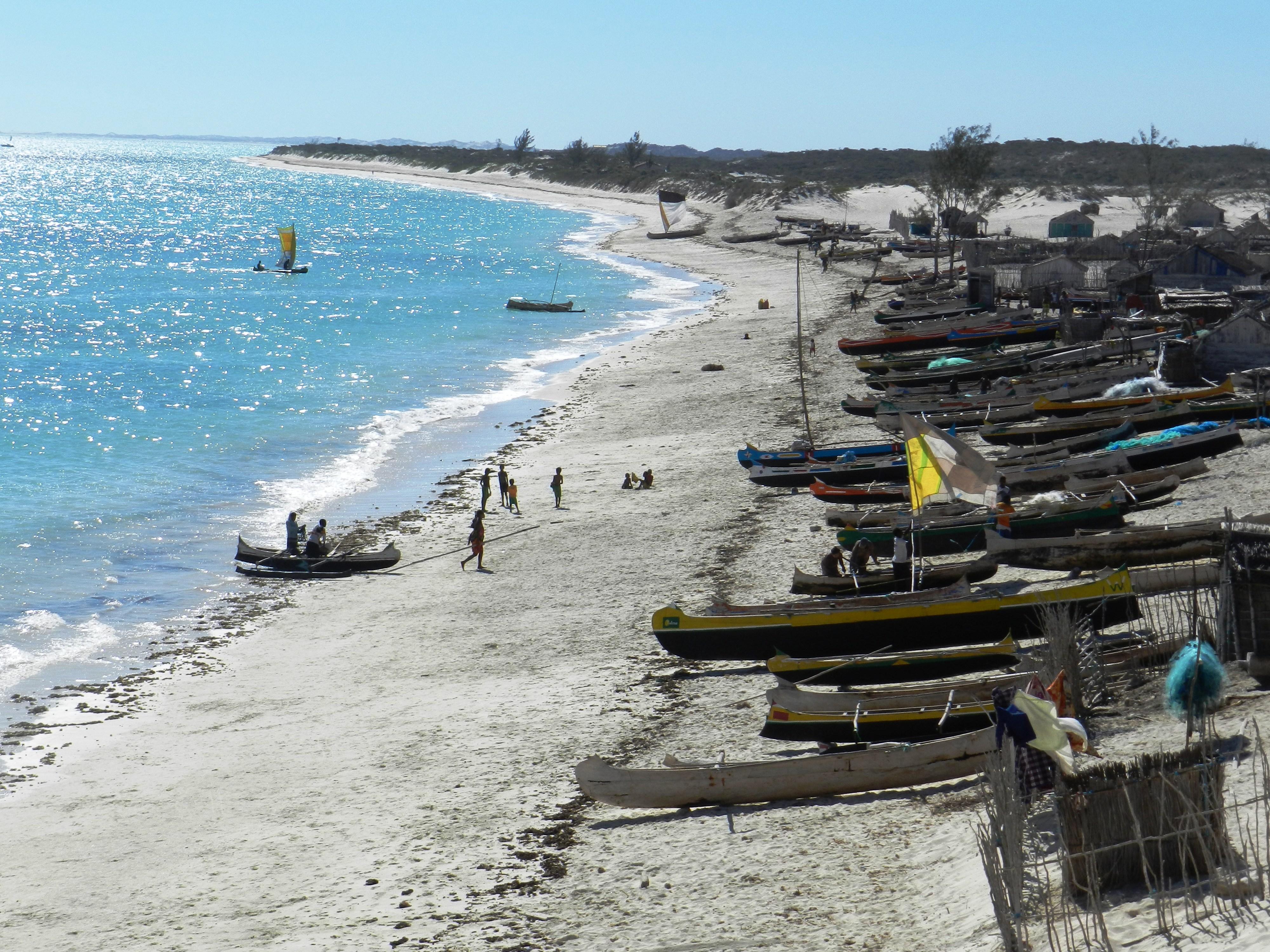 Madagascar. Vezo village Ambatomilo